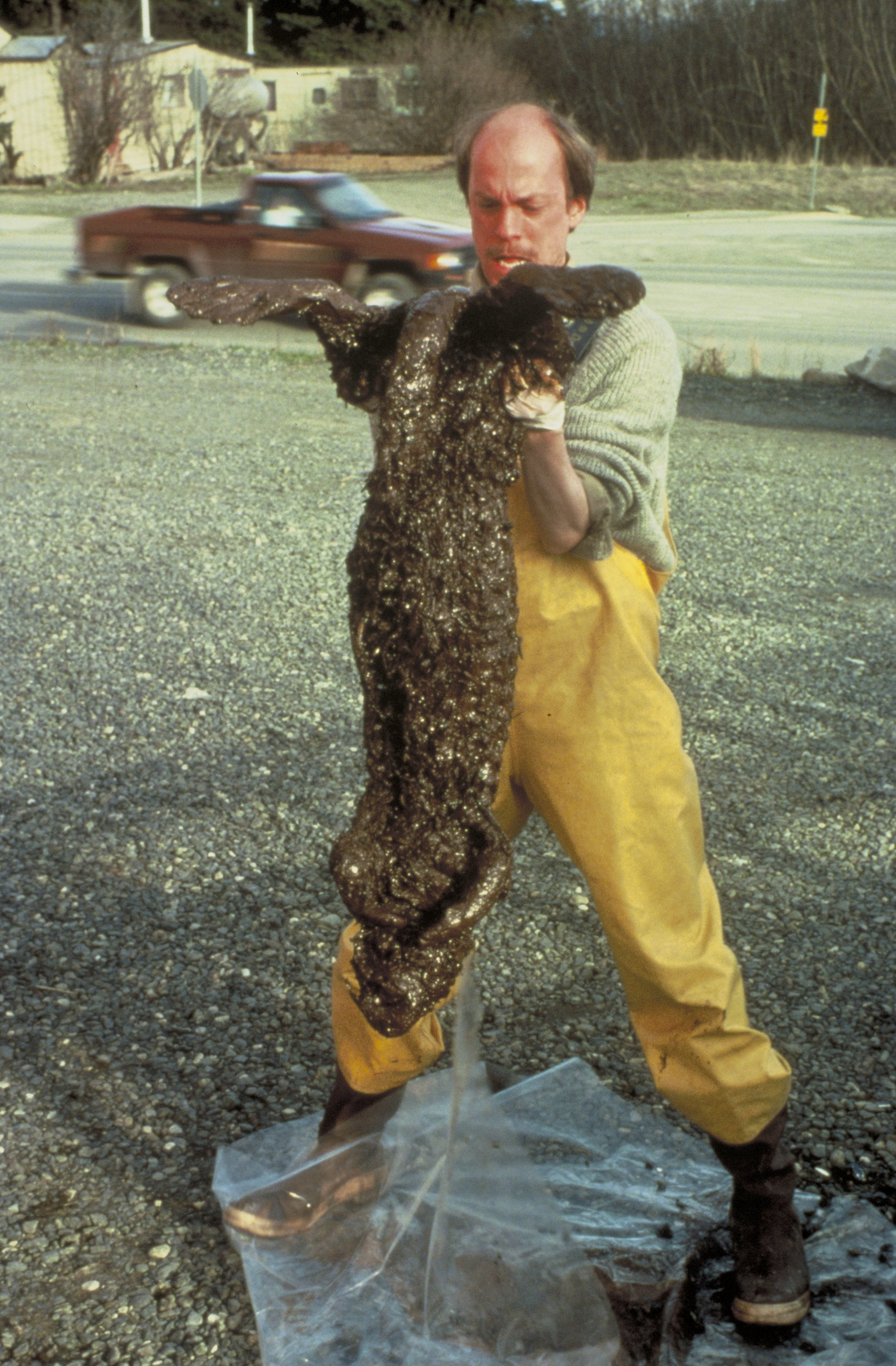 Sea otter killed by the Exxon Valdez oil spill